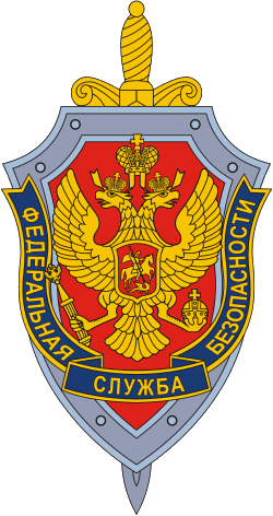 Emblem of the Federal Security Service of the Russian Federation